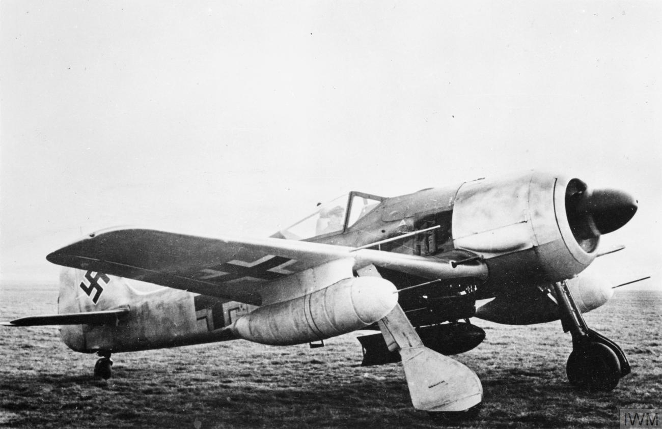 German Military Aircraft 1939-1945 Focke-Wulf Fw 190G fighter-bomber. Unlike the Me 109, the Fw 190 was used extensively as a fast bomber and ground attack aircraft, especially on the Eastern Front. This aircraft carries a 1200-lb bomb and long-range underwing fuel tanks.